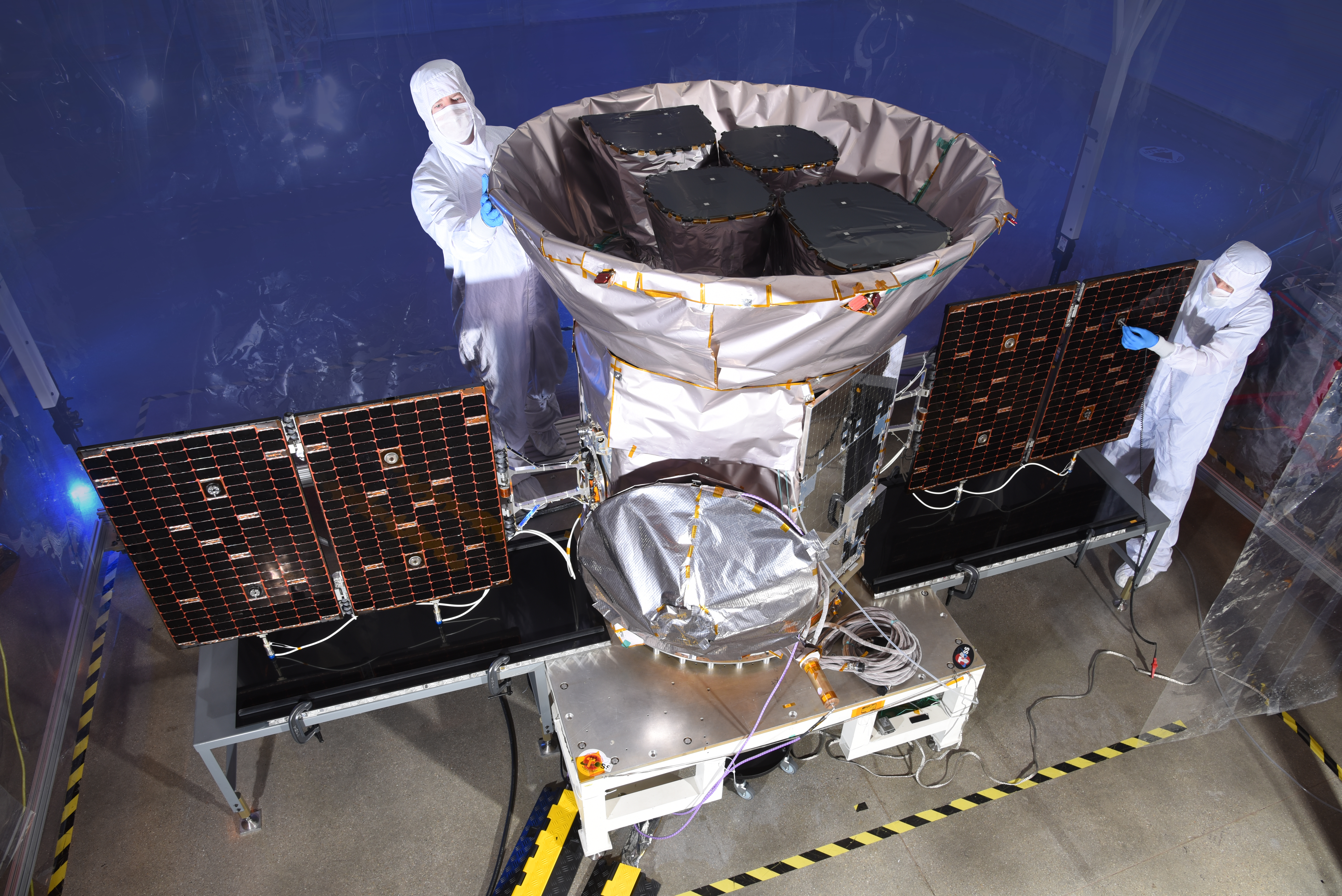 The fully integrated Transiting Exoplanet Survey Satellite (TESS)